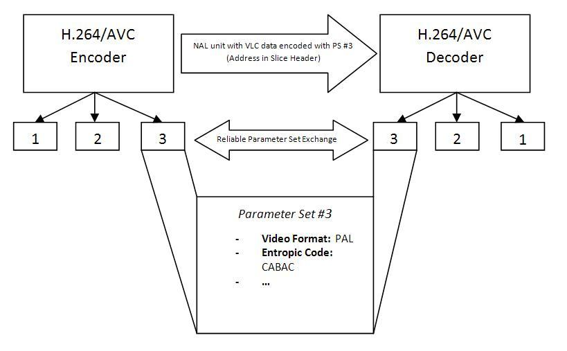 H.264/AVC Network Abstraction Layer. Parameter set use with reliable "out-of-band" parameter set exchange.